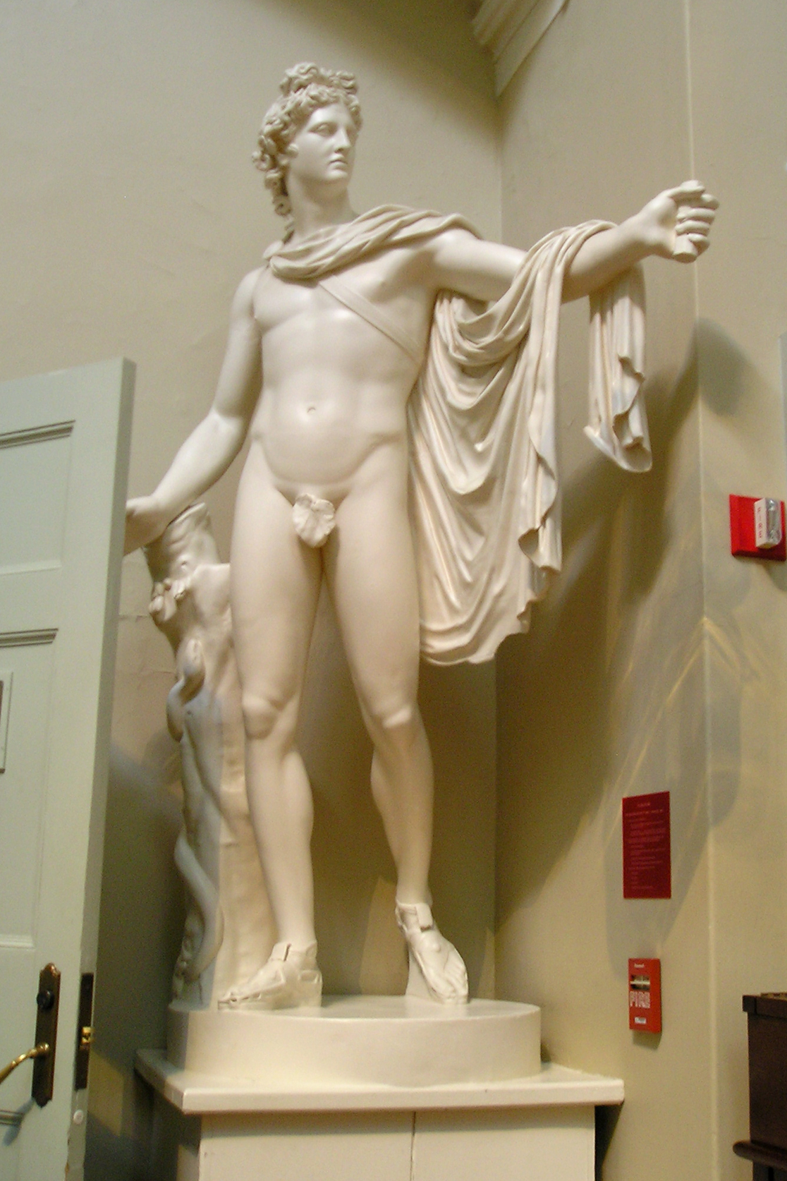 A statue of Apollo in the operating theater inside of the Ether Dome atop the Bulfinch Building at Massachusetts General Hospital in downtown Boston as photographed on 29 January 2007. The statue is visible in the operating theater's mural.